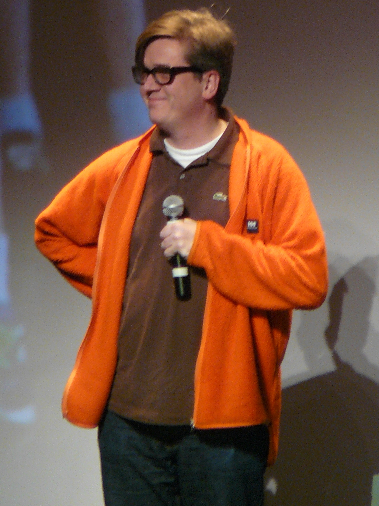 Tomas Alfredson at Fantastic'arts 2009